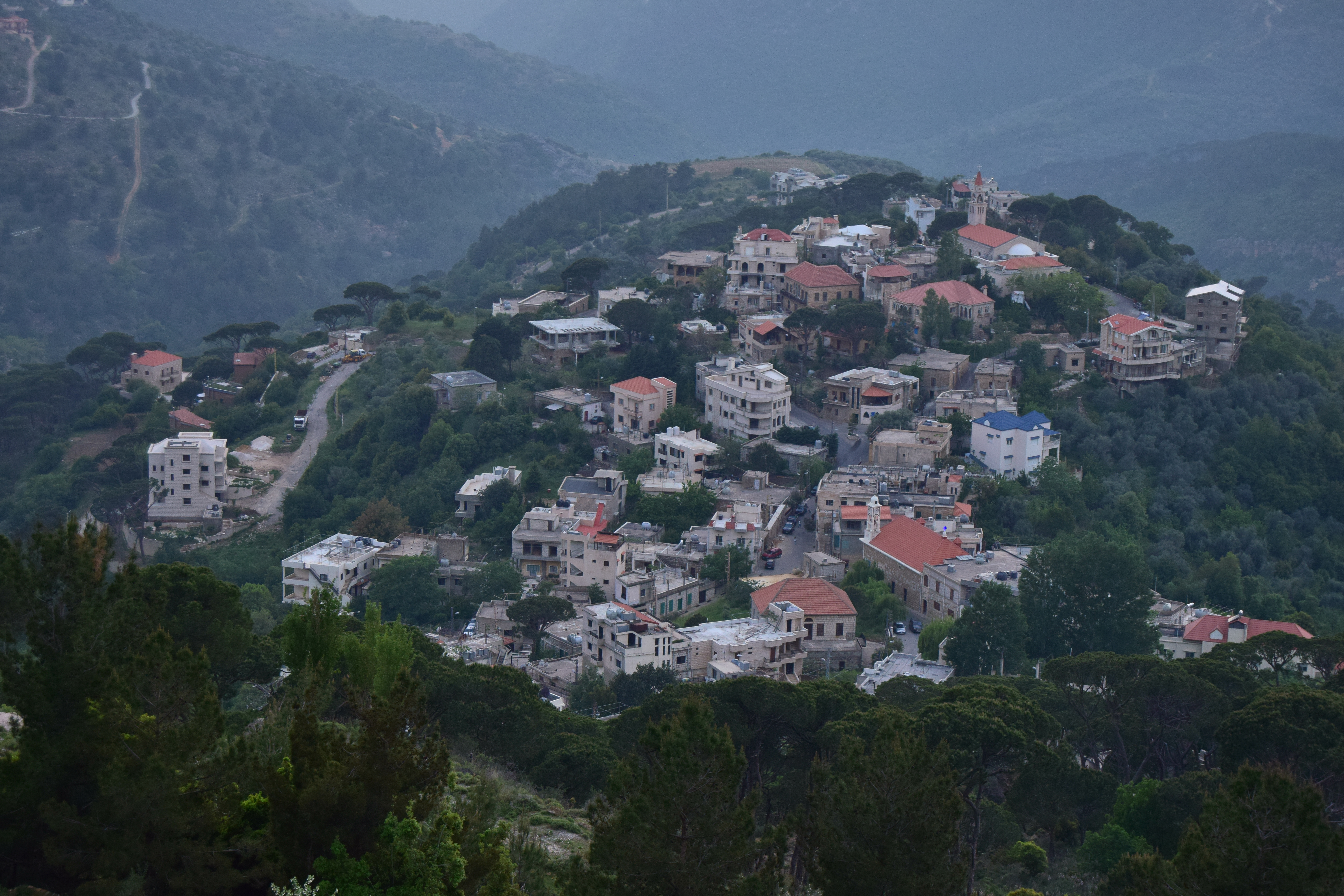 The Lebanese village of Kaitouly as it looks from the Haitoura - Jezzine road.